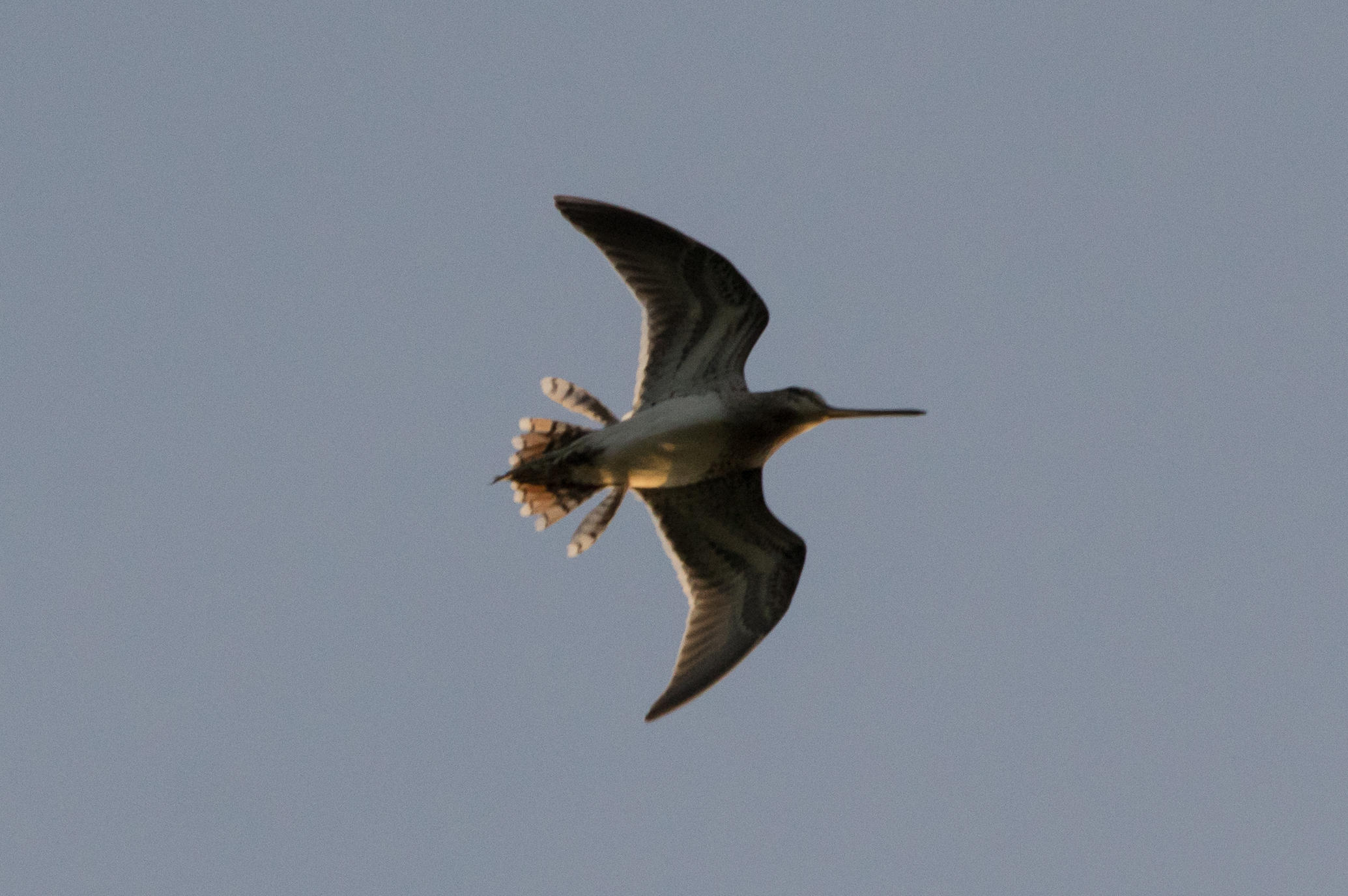 Common snipe (Gallinago gallinago), Courtship in flight